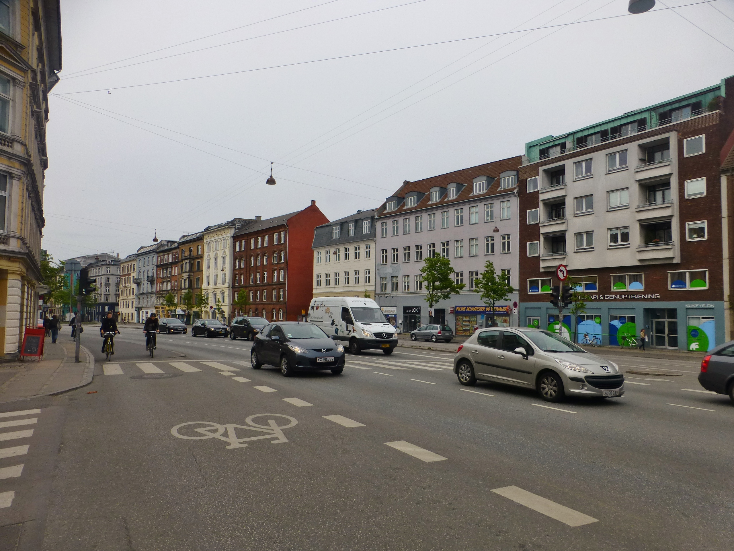 The street Åboulevard in Nørrebro in Copenhagen.